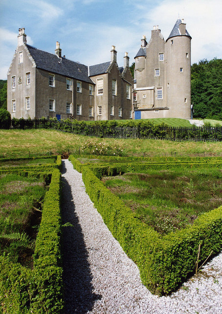 Kelburn Castle Kelburn Country Park.